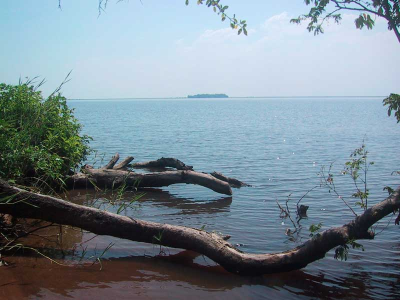 The gorgeous lake in Paraguay, the Ypoa Lake!